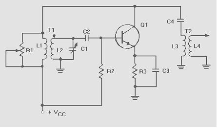 Sema Armstrongovog oscilatora